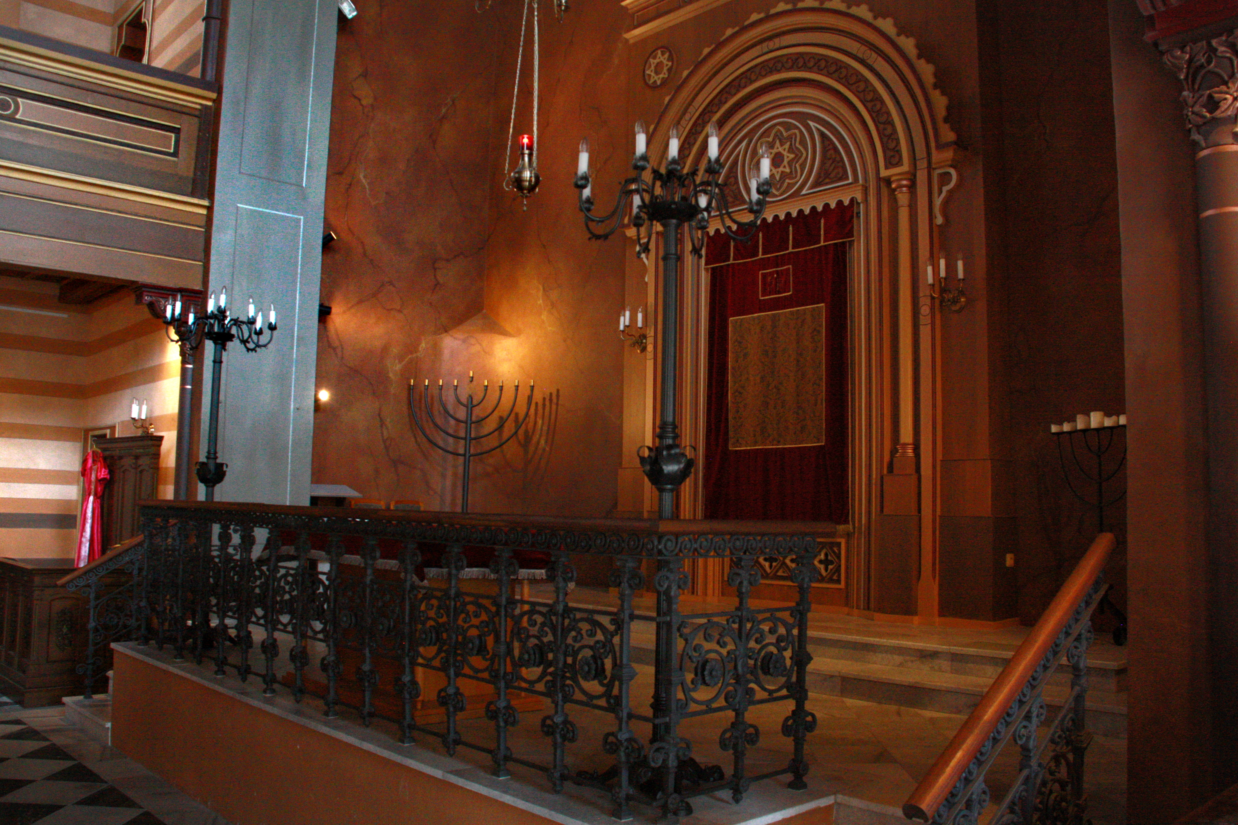 Interior of Krnov synagogue, Bruntál District, Moravian-Silesian Region, Czech Republic